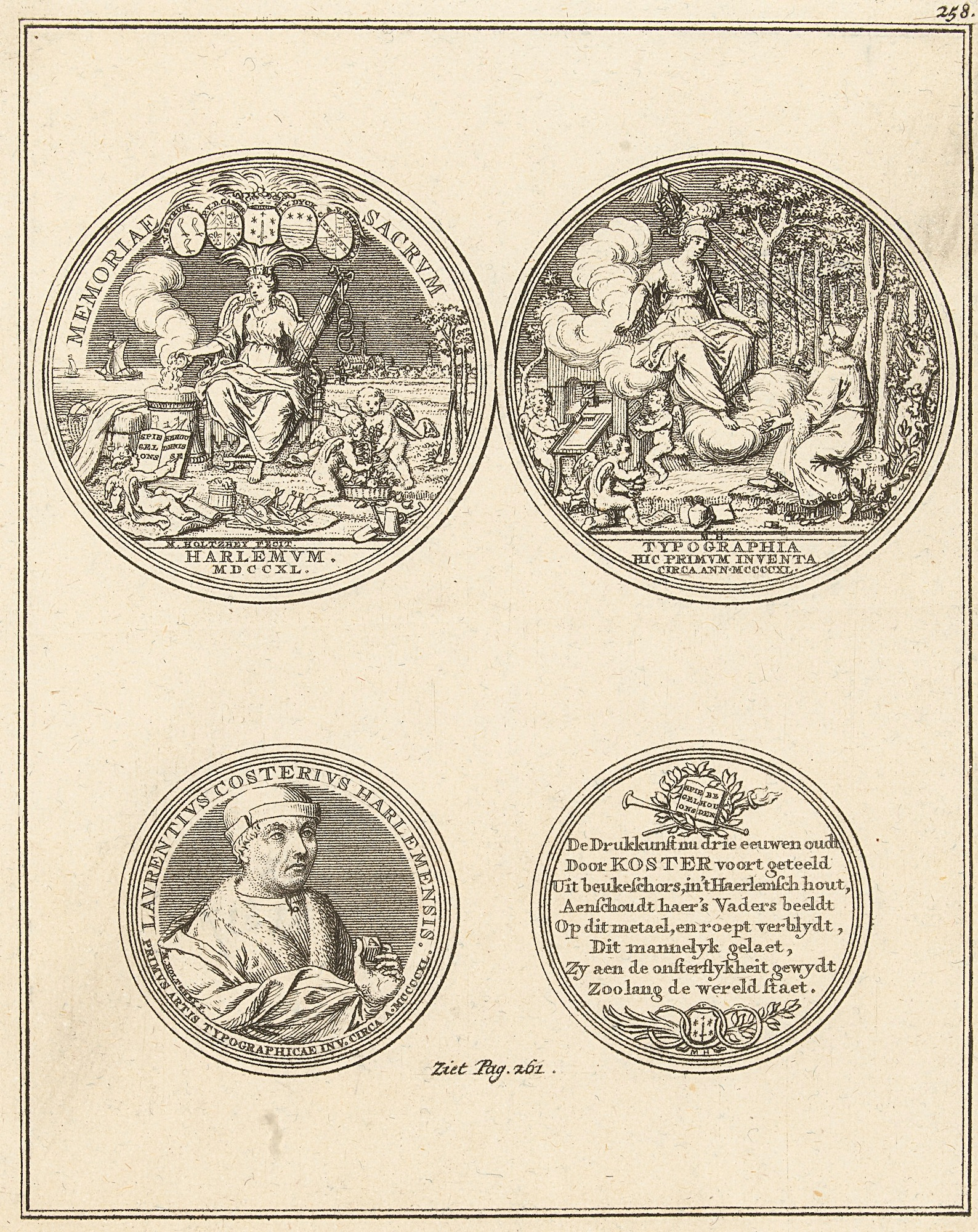 Honoring Laurens Jansz Coster for 300 years of printing books in Haarlem